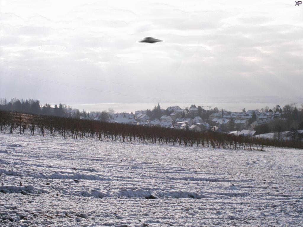 A selfmade UFO above Meersburg